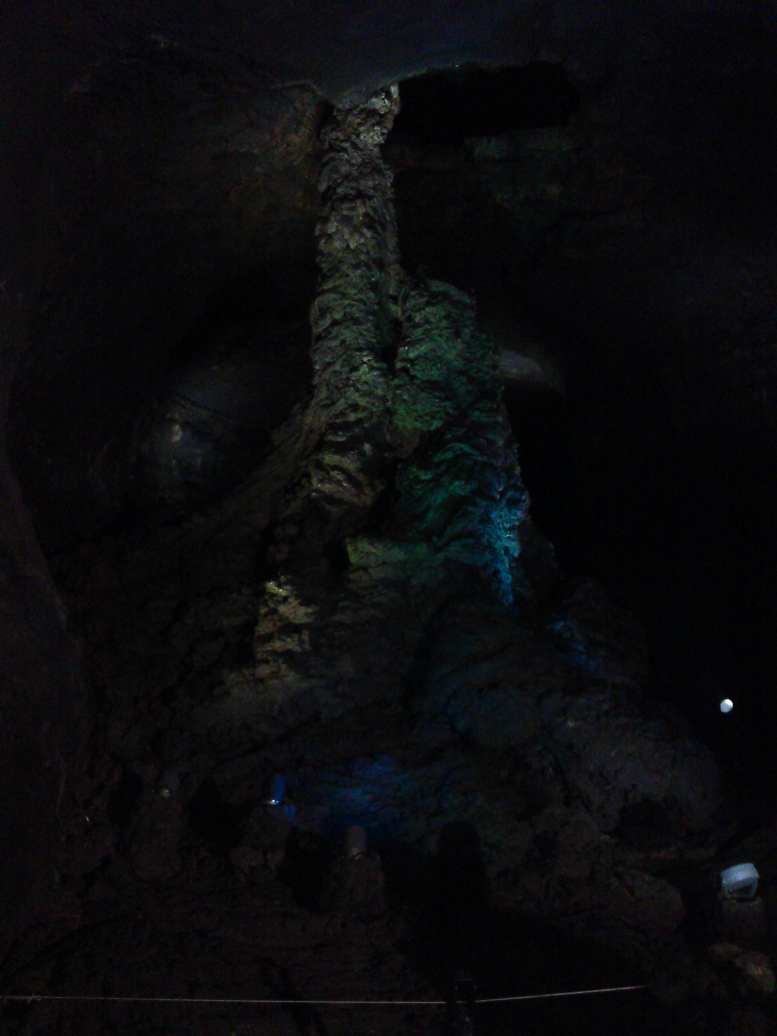 Manjanggul on Jeju-do.